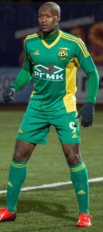 Djibril Cissé playing for FC Kuban Krasnodar in 2013.